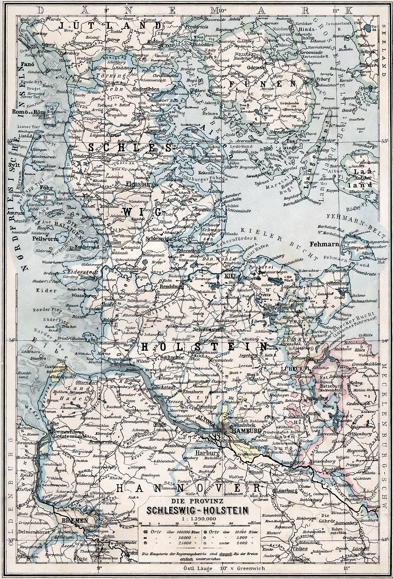 Historical map of Provinz Schleswig-Holstein